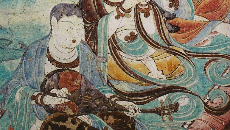 A pipa player who was drawn on the south wall of the 25th cave of Yulin Cave.中文（台灣）: 甘肅省榆林窟第25窟南壁上的唐代壁畫，演奏者正在演奏琵琶。